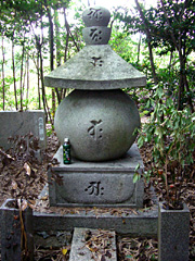 Gorinto(mirei)